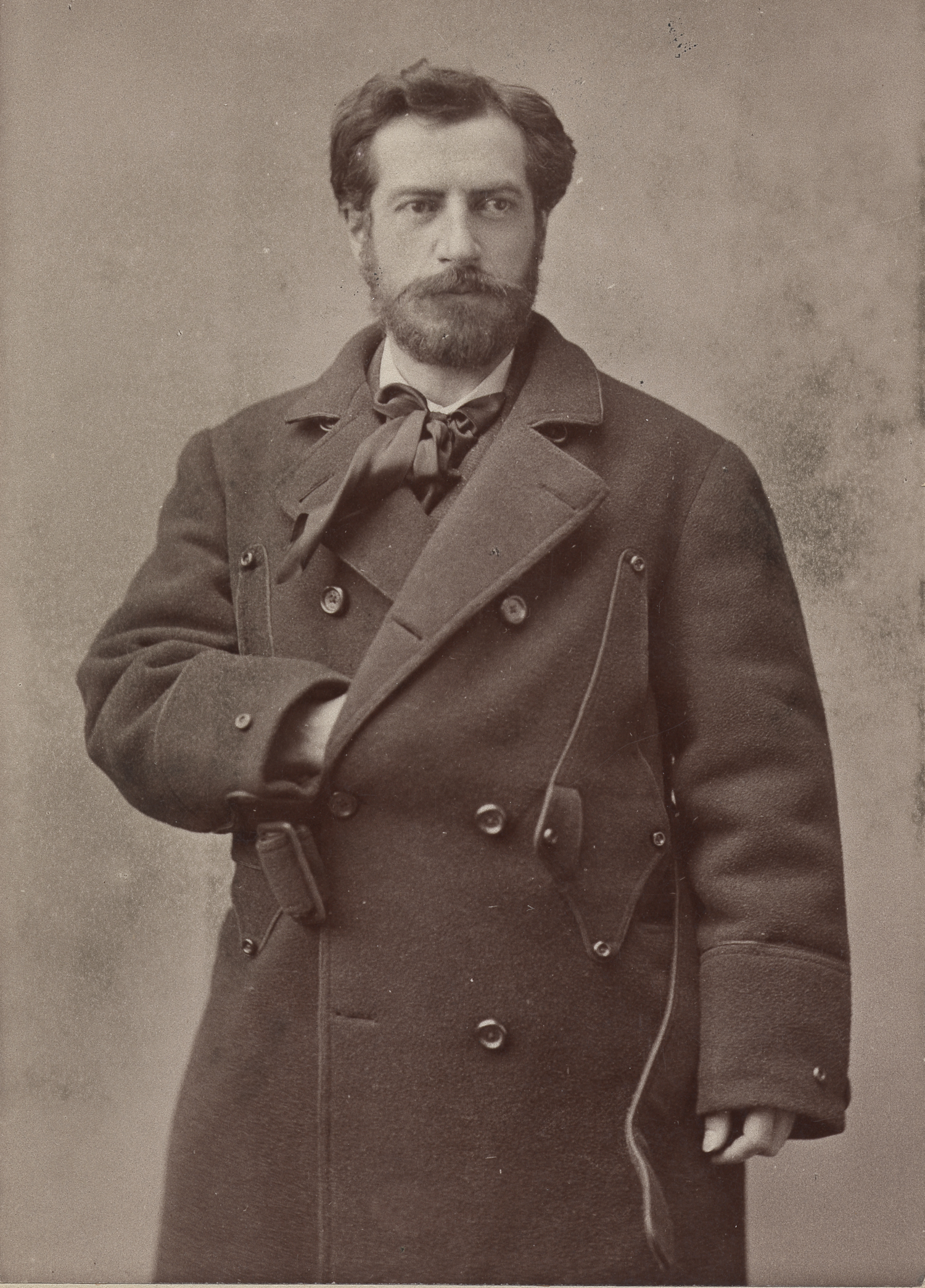 Frédéric Auguste Bartholdi, French sculptor and painter who designed the Statue of Liberty.